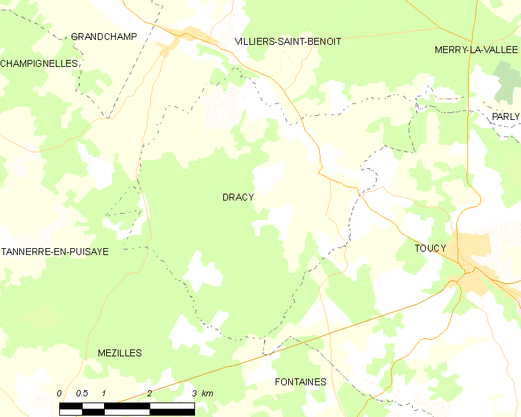 Map of French municipality Dracy